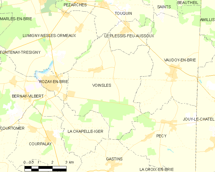 Map of French municipality Voinsles